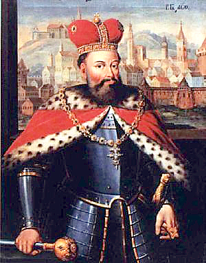 Lev of Halych